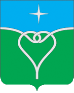 Coat of Arms of "Citimunicipality Povarovo" (municipal formations in Solnetchnogorsky rayon, Moscow Oblast in Russia)